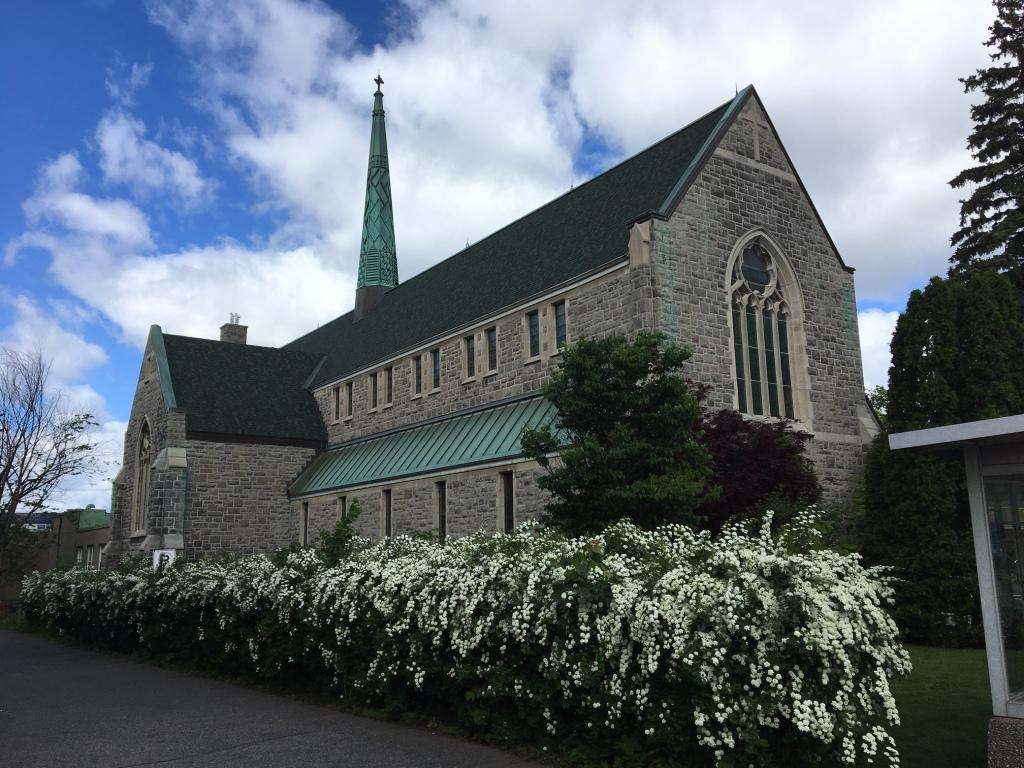 United Church of Canada, Mount Royal, QC